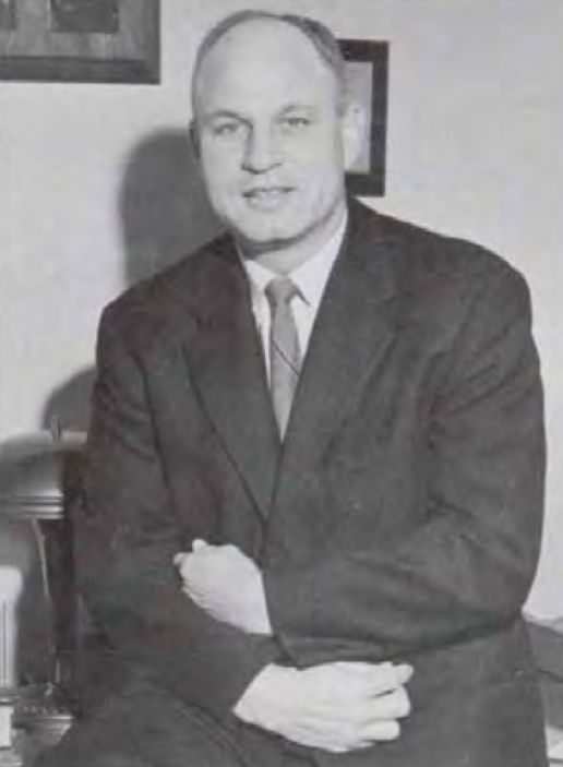 Kalamazoo College football coach Rolla Anderson in 1957.